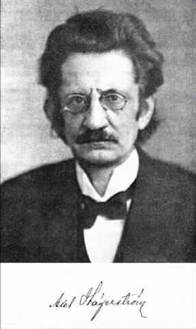 Axel Hägerström, photo from early 20th century.